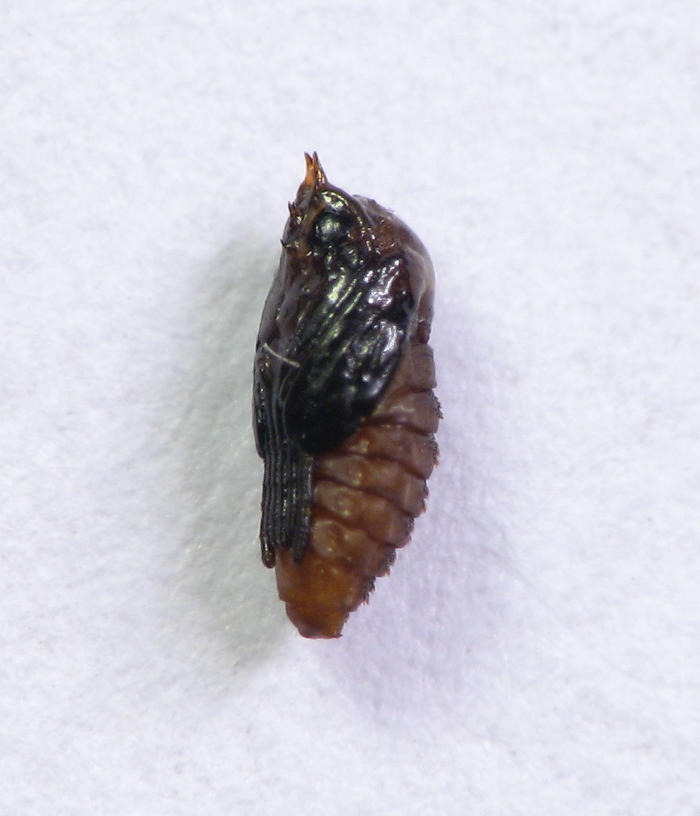 Gall maker of goldenrod, Solidago sp., Asphondylia solidaginis pupa, from Pennypack Restoration Trust, Montgomery County, Pennsylvania, USA.